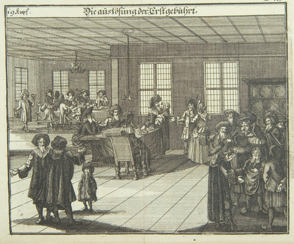 Illustration from Juedisches Ceremoniel, a German book published in Nürnberg in 1724 by Peter Conrad Monath. The book is a beautifully illustrated description of Jewish religious ceremonies, rites of passage and feast days, which first appeared in 1716, here in its second edition of 1724. The extremely detailed plates, by Georg Puschner, depict priestly robes, the celebrations of the New Year, Passover, the weekly Sabbath, circumcision, presentation of the first born, prayer at the synagogue, a wedding procession and a wedding, purification of the bride, the washing of the brother-in-law's feet, the feast of reconciliation, death rites, burials, as well as the procedures for other Jewish customs.